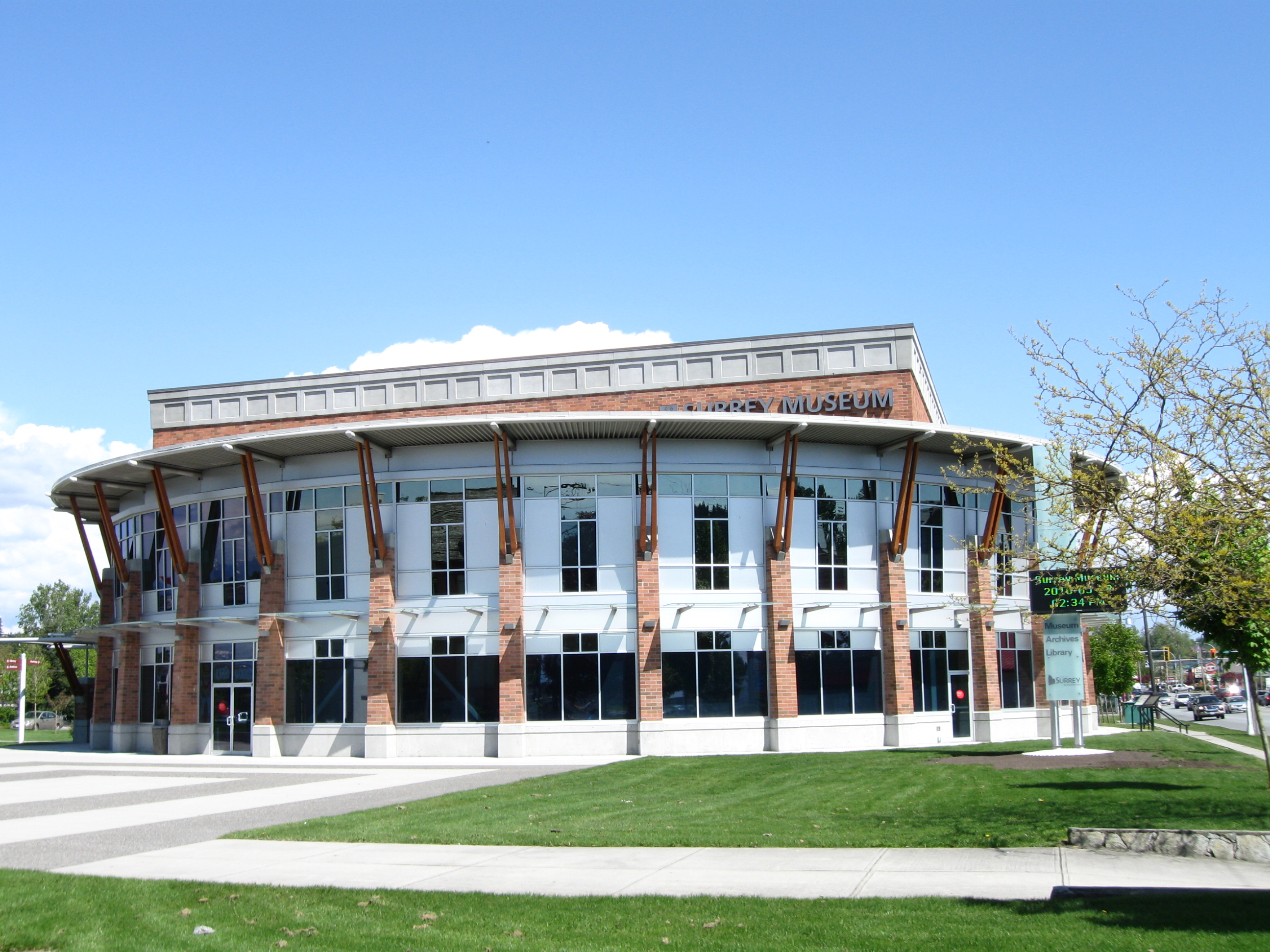 The Surrey Museum at 17710 56A Avenue in the City of Surrey, British Columbia, Canada.